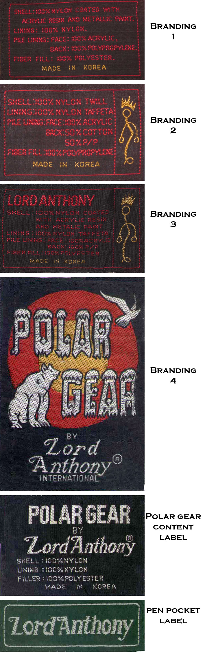 The branding used by Lord Anthony changed over the years. This shows all branding used on their snorkel parka jackets from the oldest to the newest